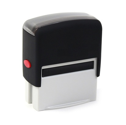 Modern customized rubber stamps take minutes to make and are easy to use.